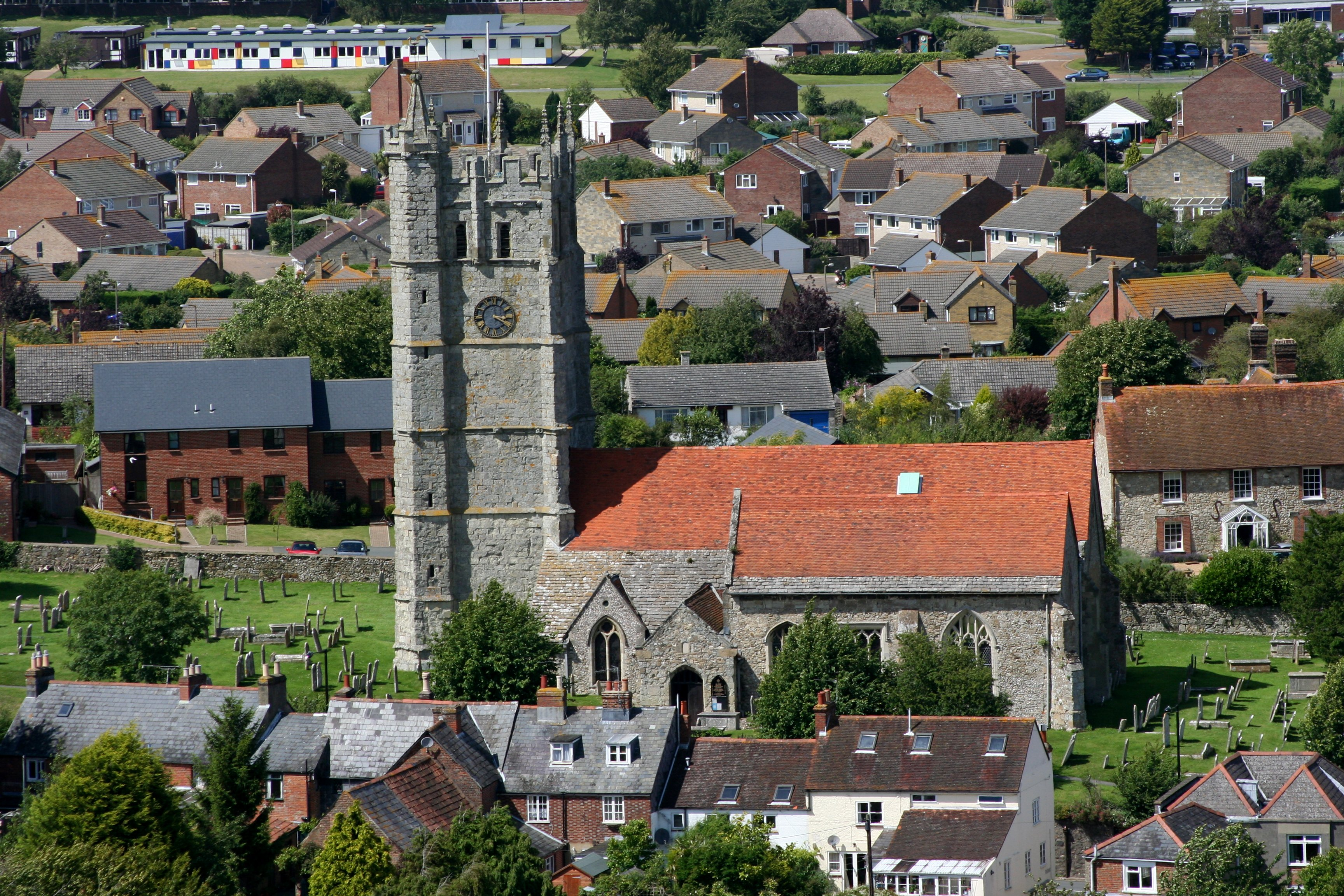 Carisbrooke church, viewed from Carisbrooke Castle